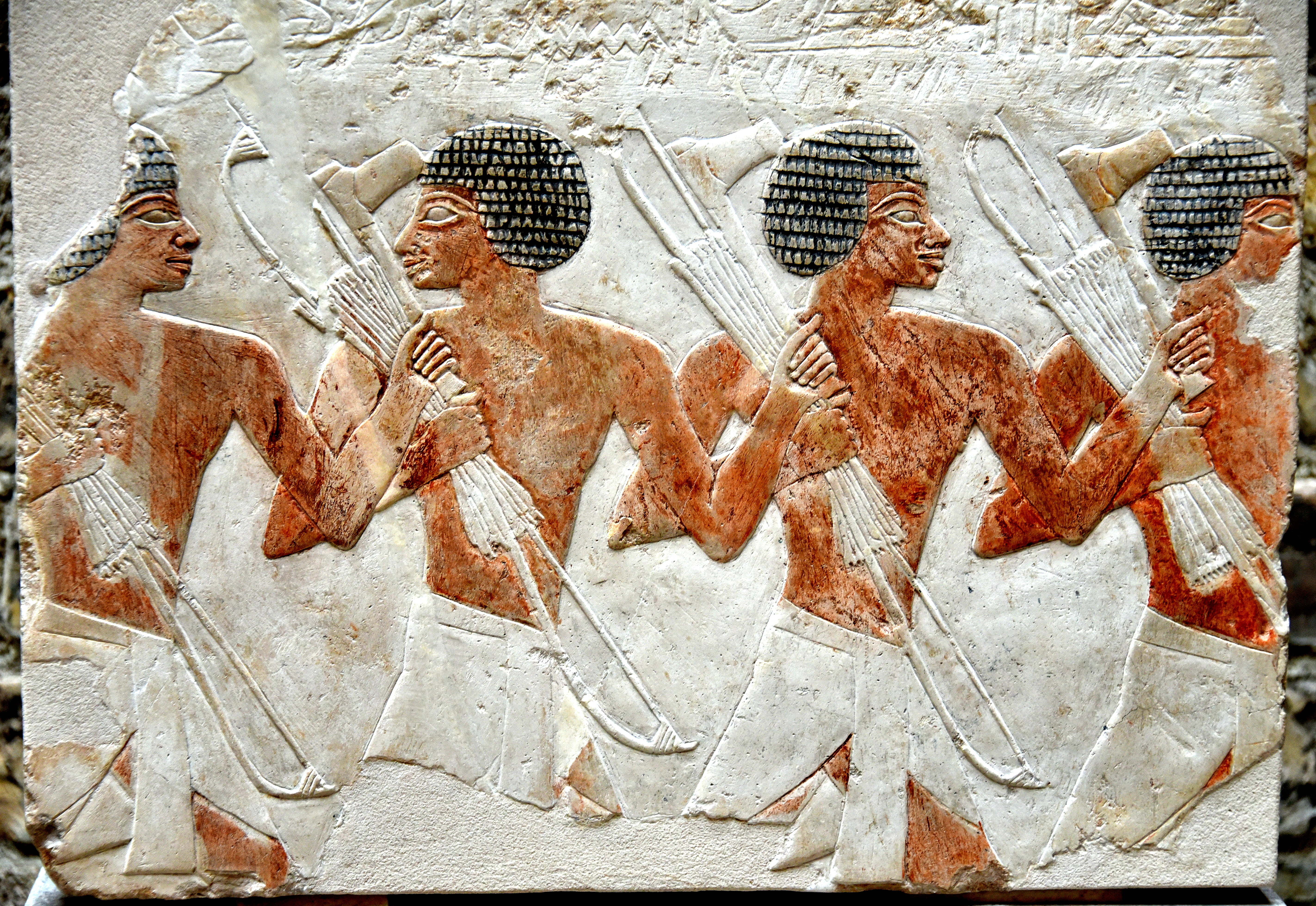 A procession of Egyptian soldiers and Nubian mercenaries in a festival. They hold axes, bows, and quivers of arrows. From the mortuary temple of Queen Hatshepsut at Deir el-Bahari, Western Thebes, Egypt. New Kingdom, 18th Dynasty, c. 1470 BCE. Neues Museum, Berlin, Germany. Limestone, painted. ÄM 14141.